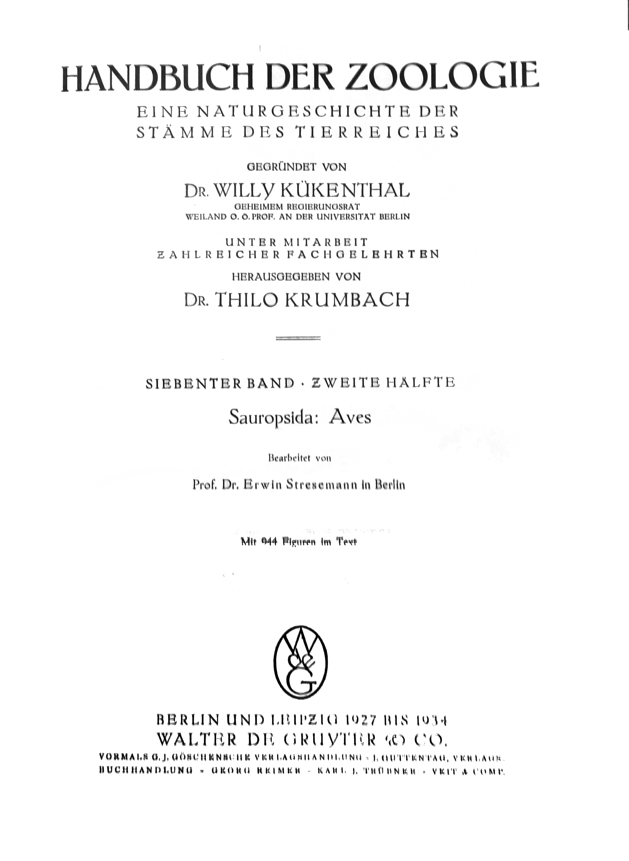 Title page of Stresemann's volume on birds in the Handbuch der Zoologie - very few copies of this book survive as a number of them were destroyed during the Third Reich